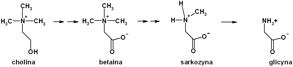 Glycine synthesis from choline; description on image in Polish